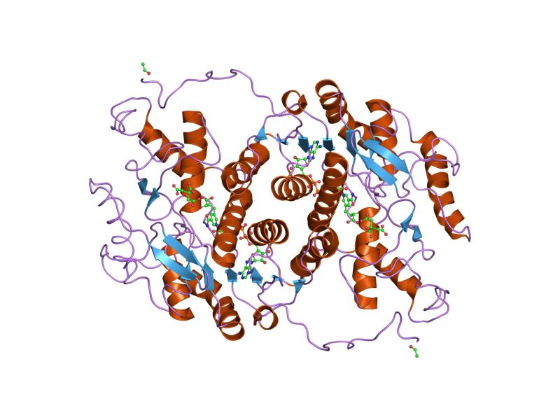 Cartoon representation of the molecular structure of protein registered with 5ldh code.